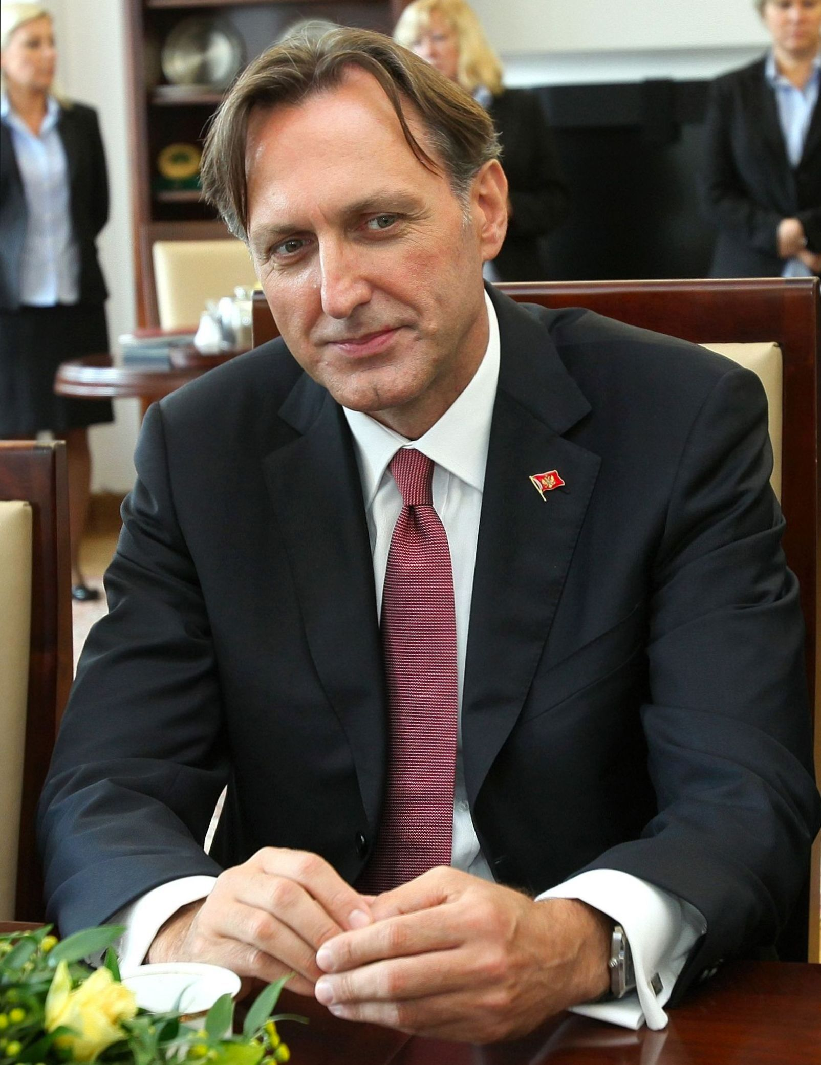 Speaker of the Parliament of Montenegro Ranko Krivokapić